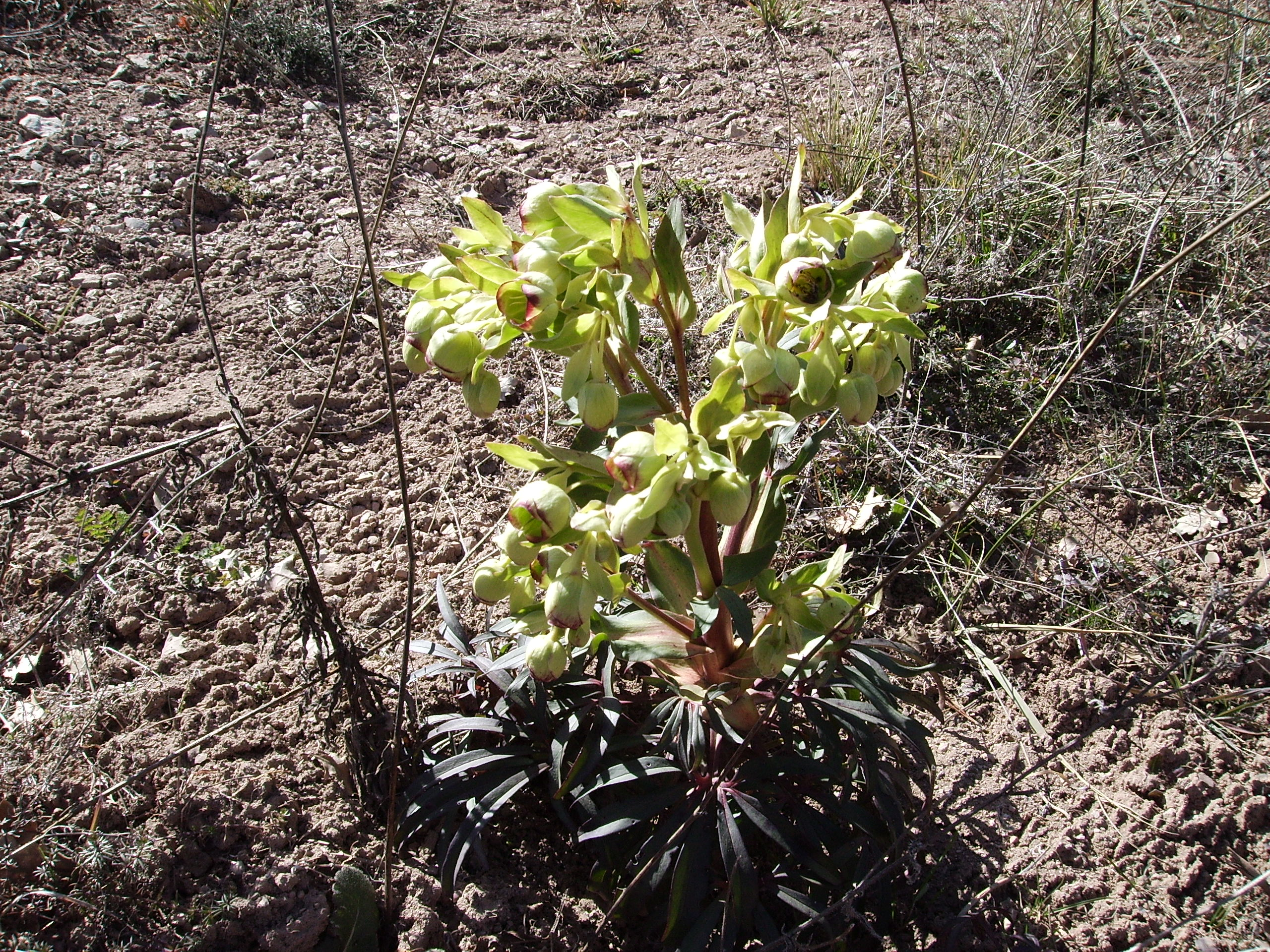 Image:Helleborus_foetidus050.jpg My own work Castelltallat, Catalonia 11/03/06